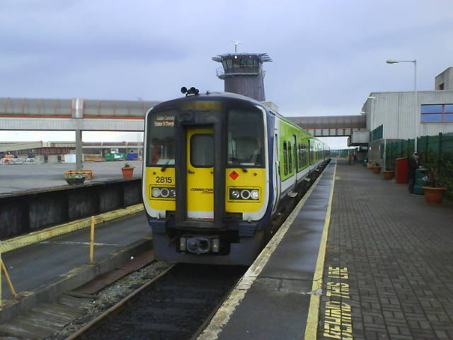 Rosslare Europort railway station. 2815